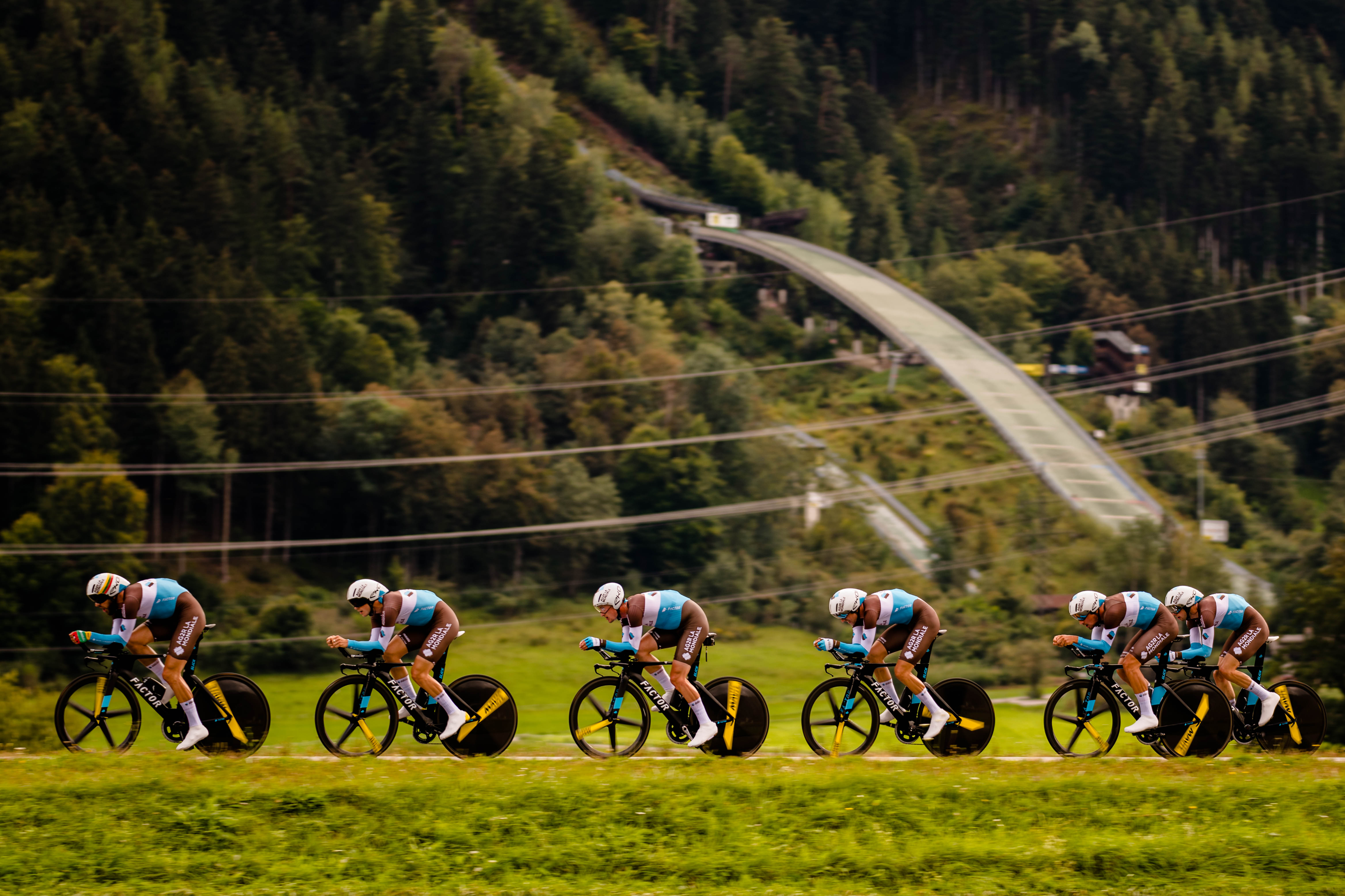 2018 UCI Road World Championships Innsbruck/Tirol Men's Team Time Trial. Picture shows: Gediminaas Bagdonas, Francois Bidard, Nico Denz, Sivlan Dillier, Alxendre Geniez, and Alexis Gougeard of Team AG2R La Monadiale